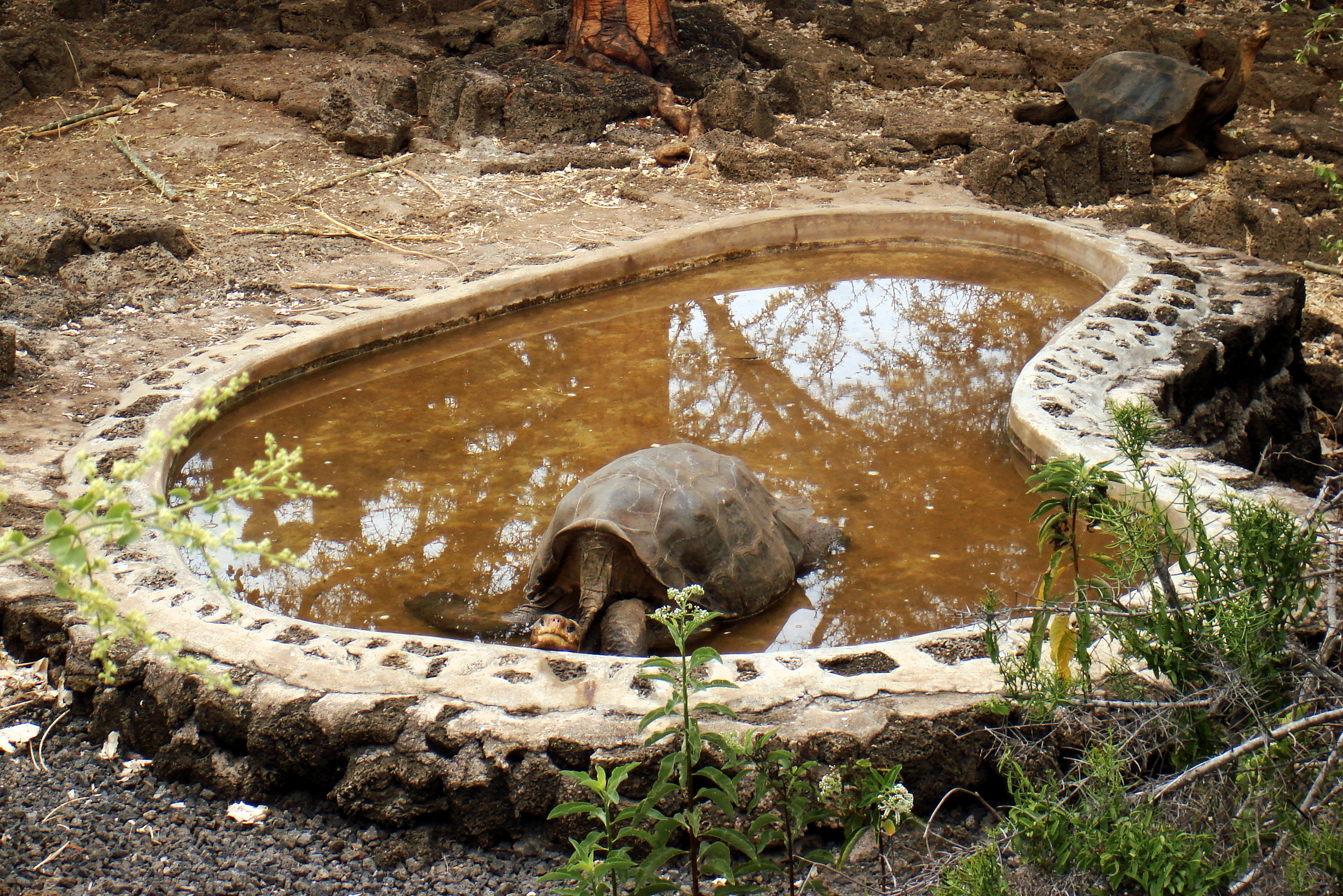 Lonesome George, Galápagos Islands.